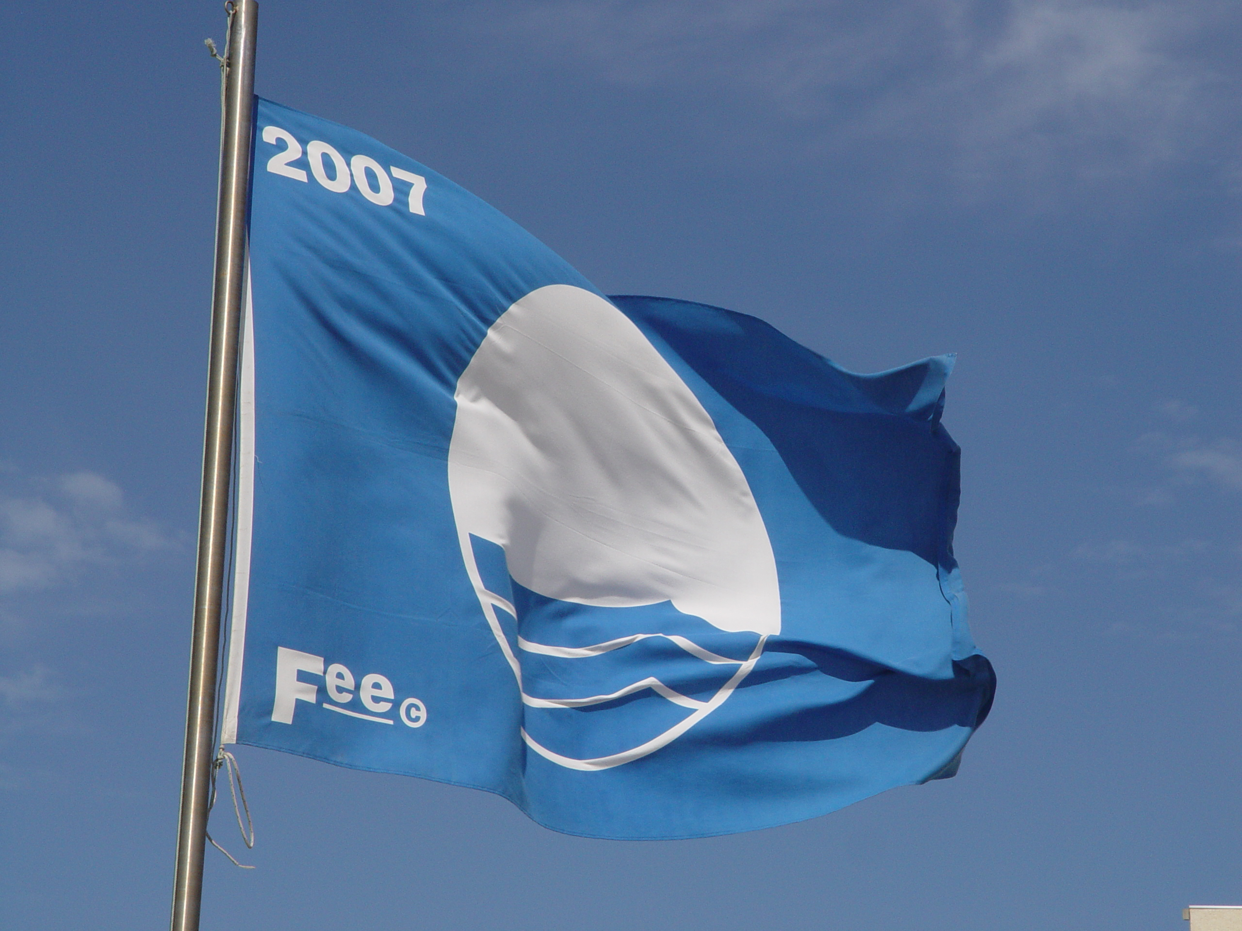 Blue Flag in Apúlia beach, Portugal.